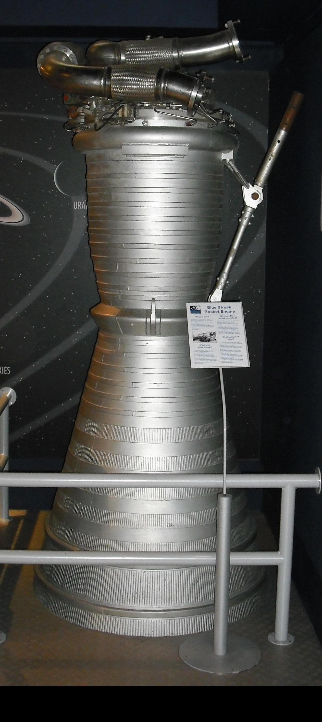 Rolls-Royce RZ.2 rocket engine Photographed at Armagh Planetarium